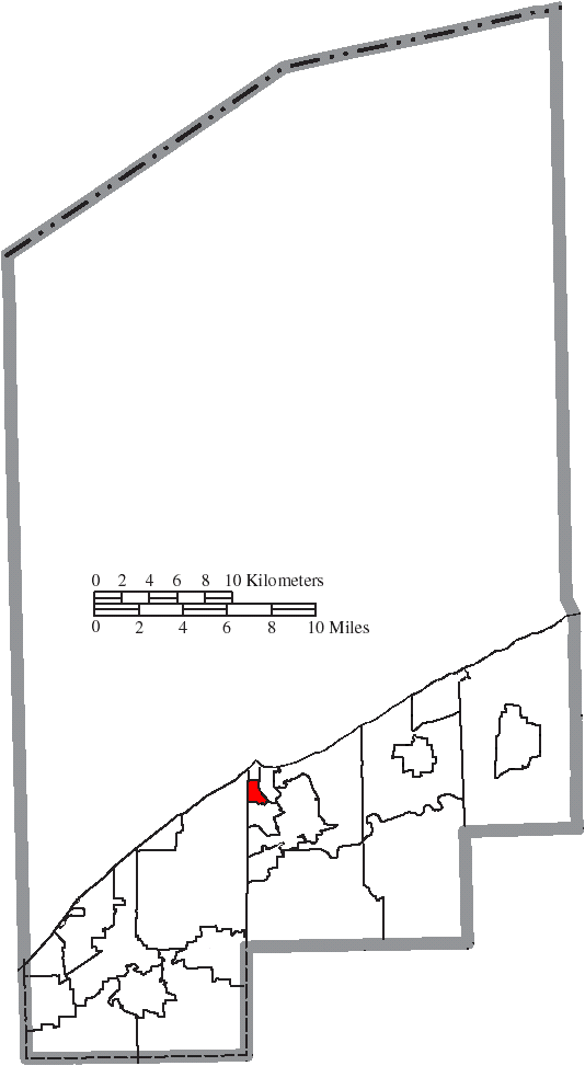 Map of the municipal and township boundaries of Lake County, Ohio, United States, as of the 2000 census, with the location of the village of Grand River highlighted. Township borders are shown only in unincorporated areas in order to differentiate incorporated and unincorporated areas more clearly.